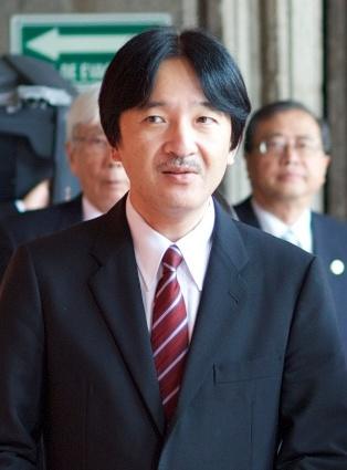 Prince and Princess Akishino during their visit to México City in 2014.